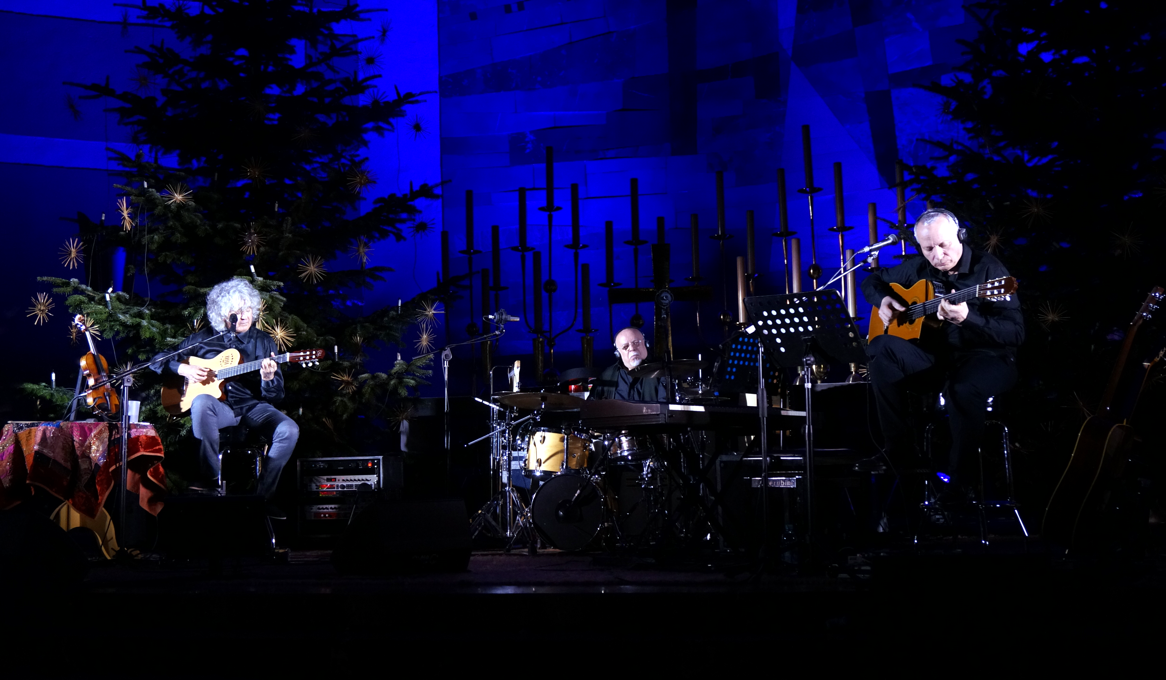 Der italienische Sänger Angelo Branduardi bei der Auftaktveranstaltung zu seiner Kirchentour im Januar 2014 in der Münchner Matthäuskirche